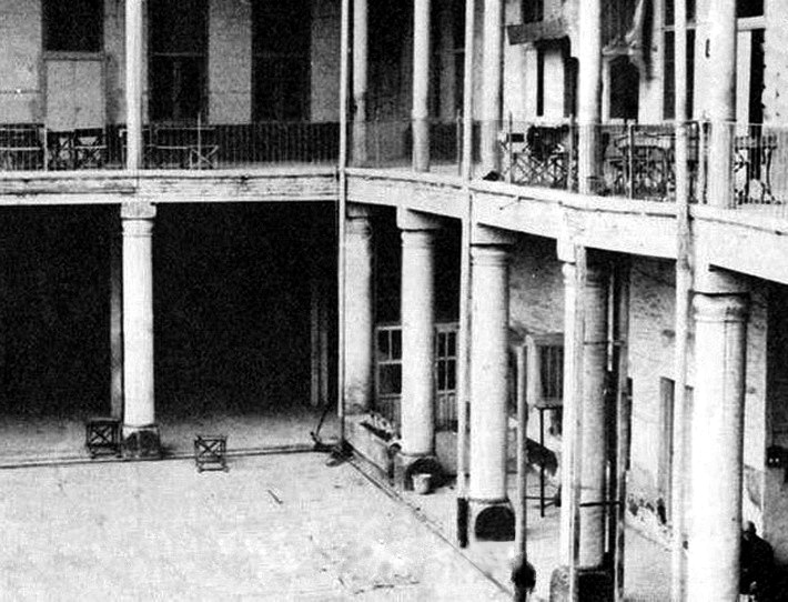 Shamash School from the inside